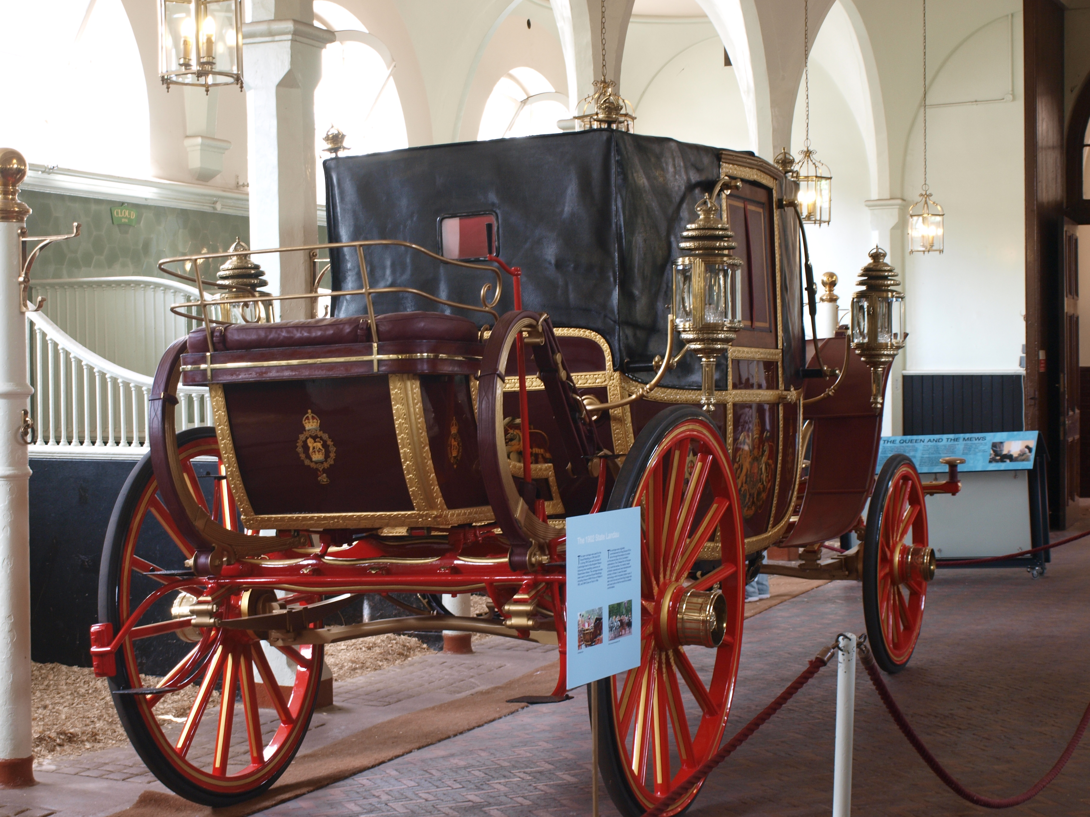 1902 State landau London, England